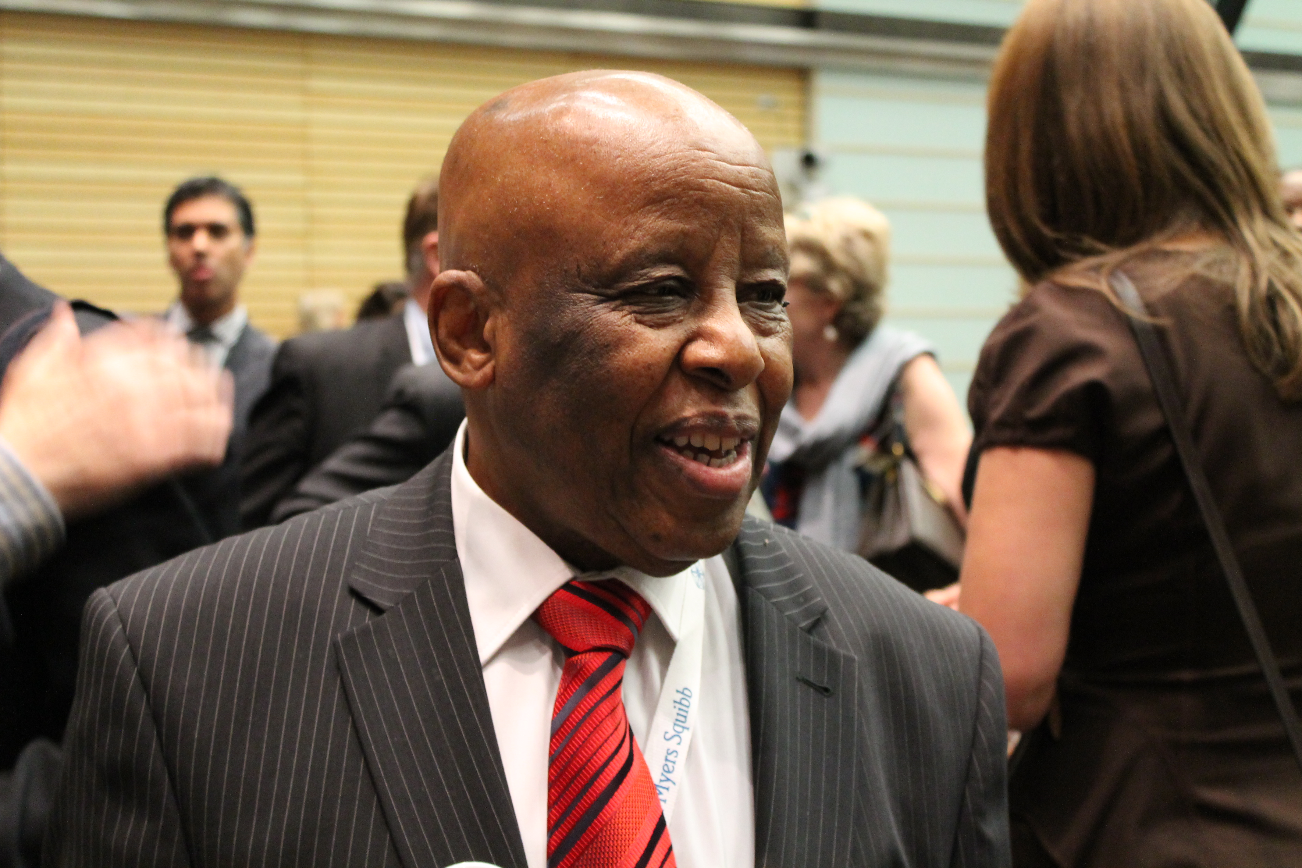 Festus Mogae at 2012 International AIDS Conference